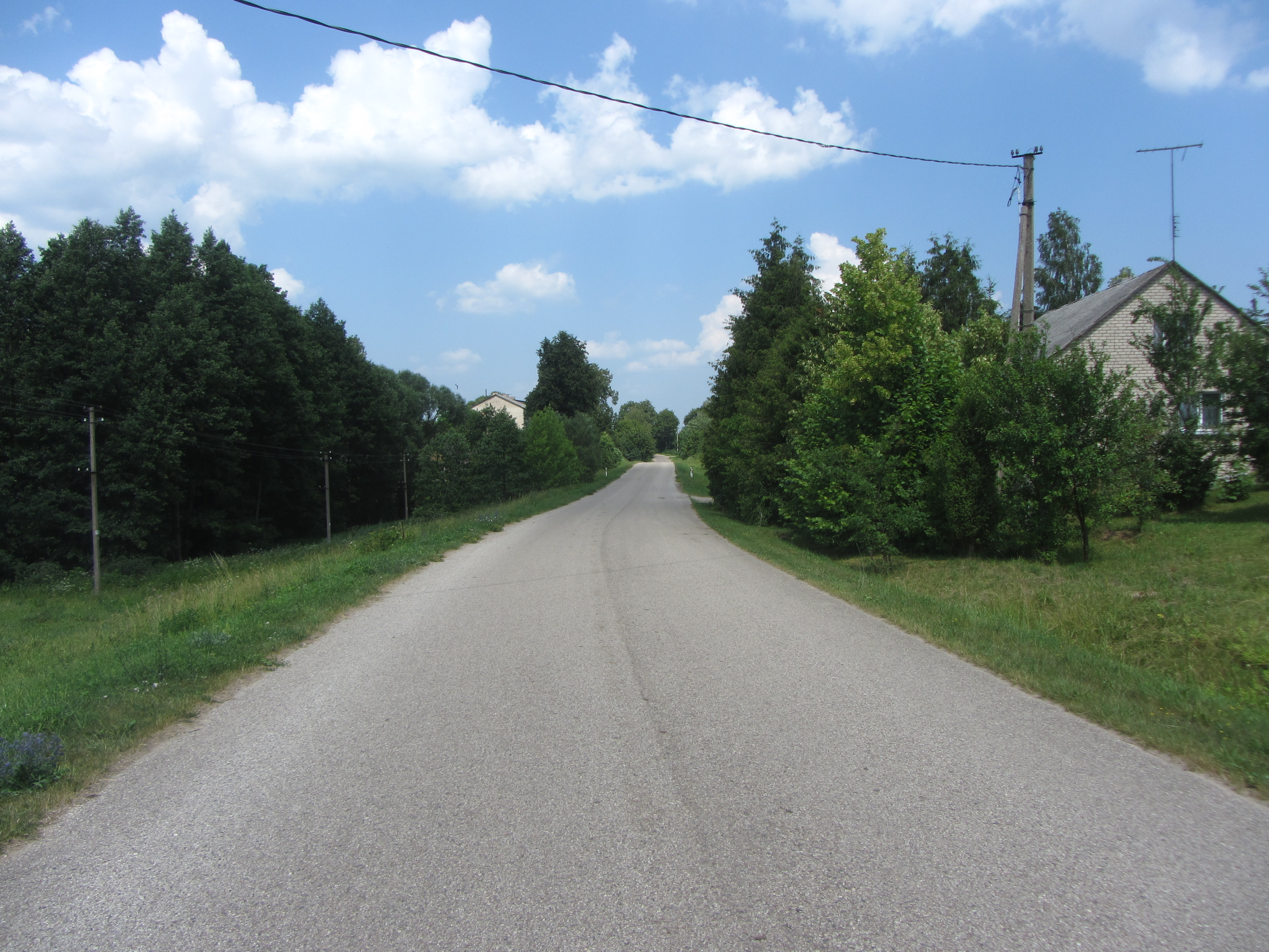 Salos, Lithuania